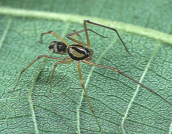 male Scytodes fusca from Okinawa.